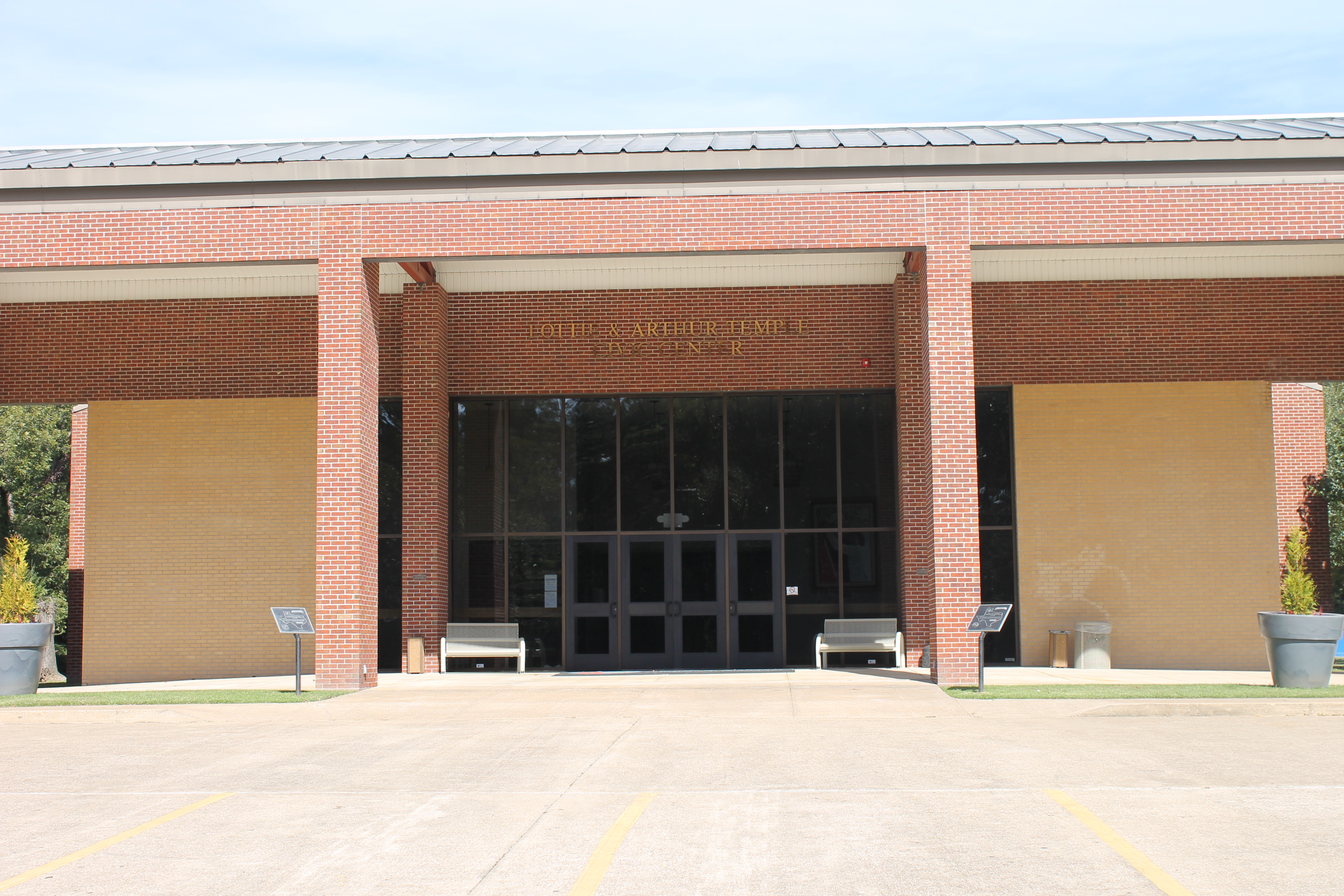 Lottie and Arthur Temple Civic Center in Diboll, TX